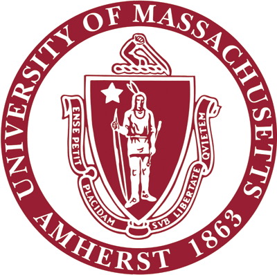 Old seal of the University of Massachusetts Amherst